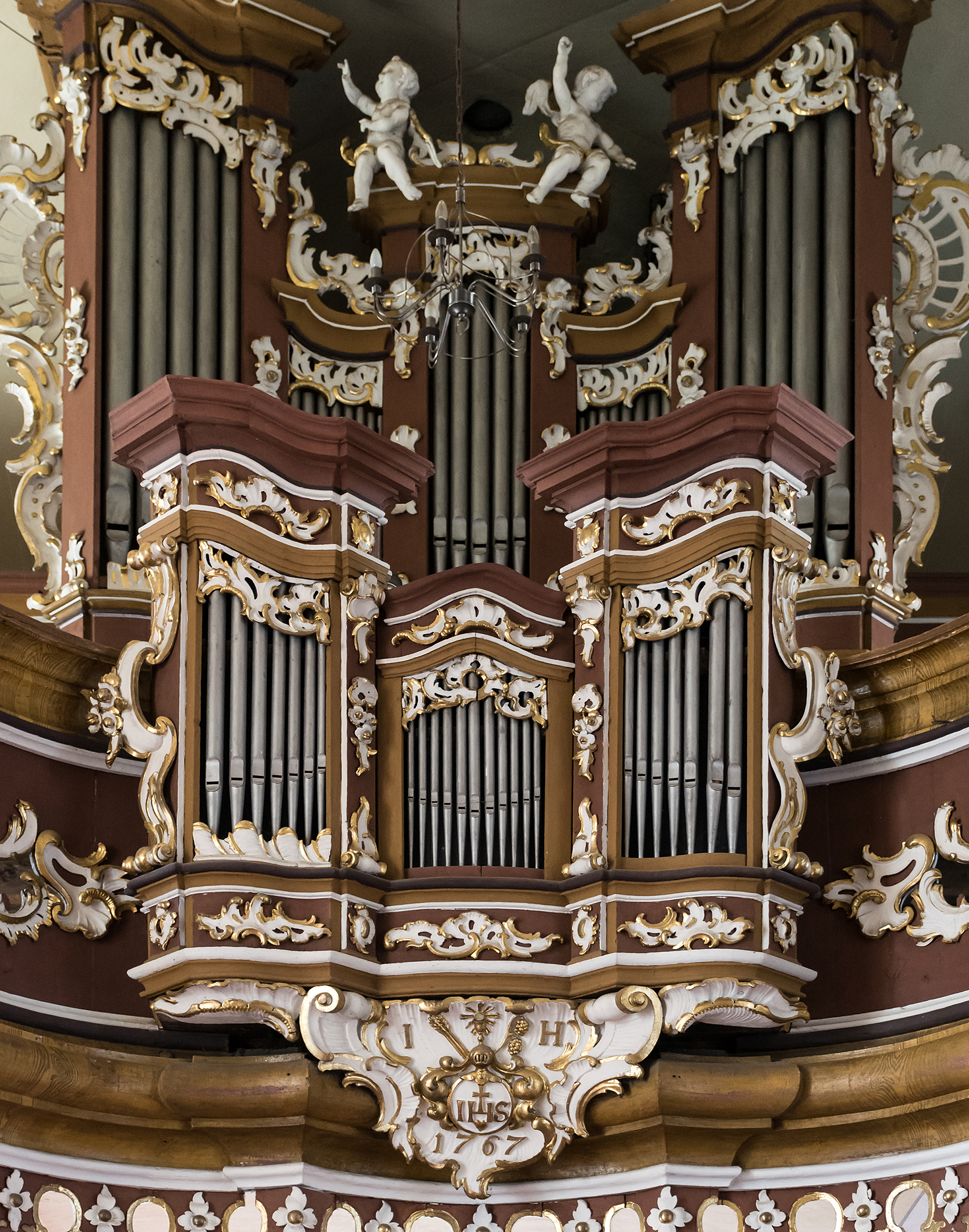 Saint Mary Magdalene Church in Ścinawka Średnia